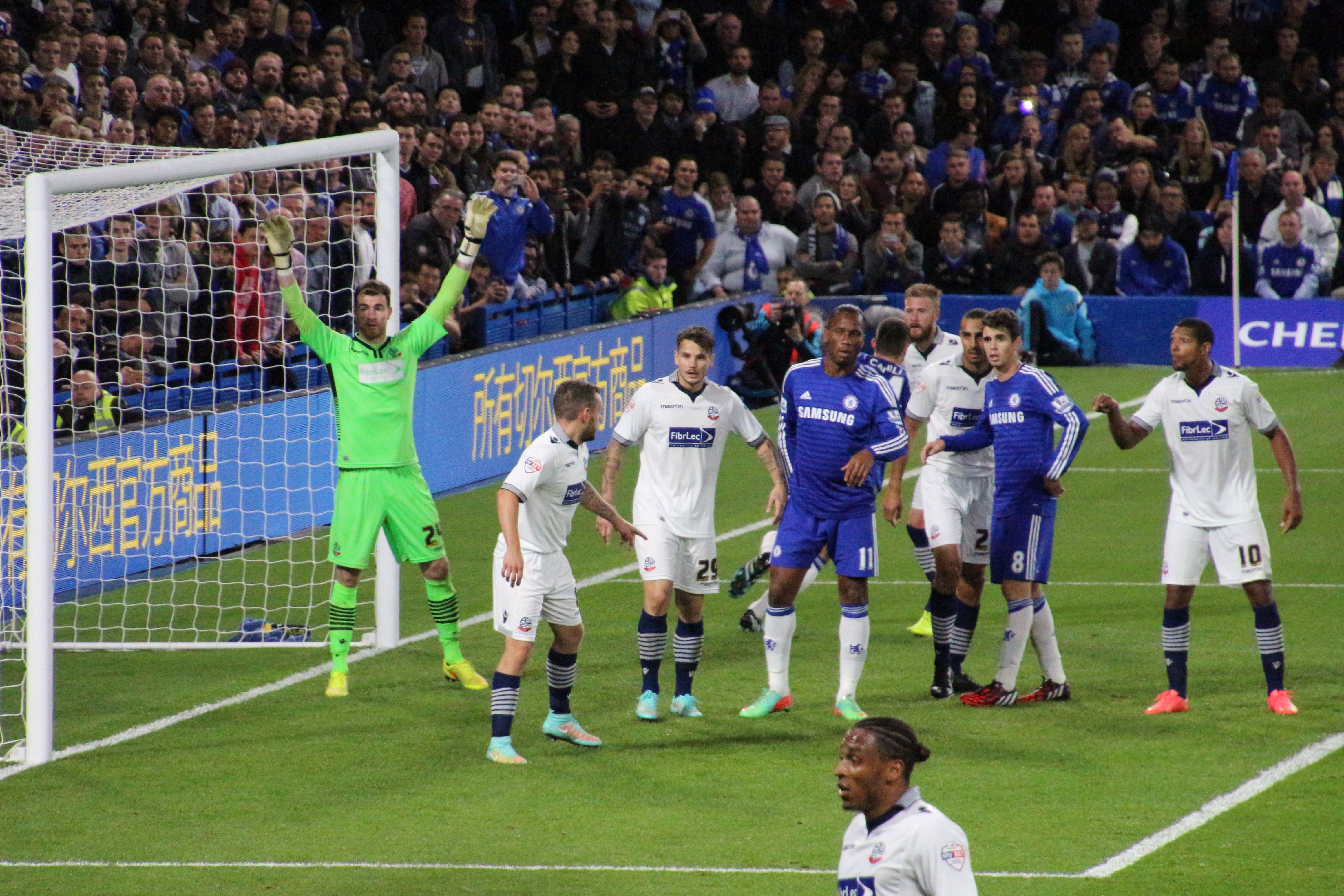 Chelsea 2 Bolton Wanderers 1 Chelsea progress to the next round of the Capital One cup